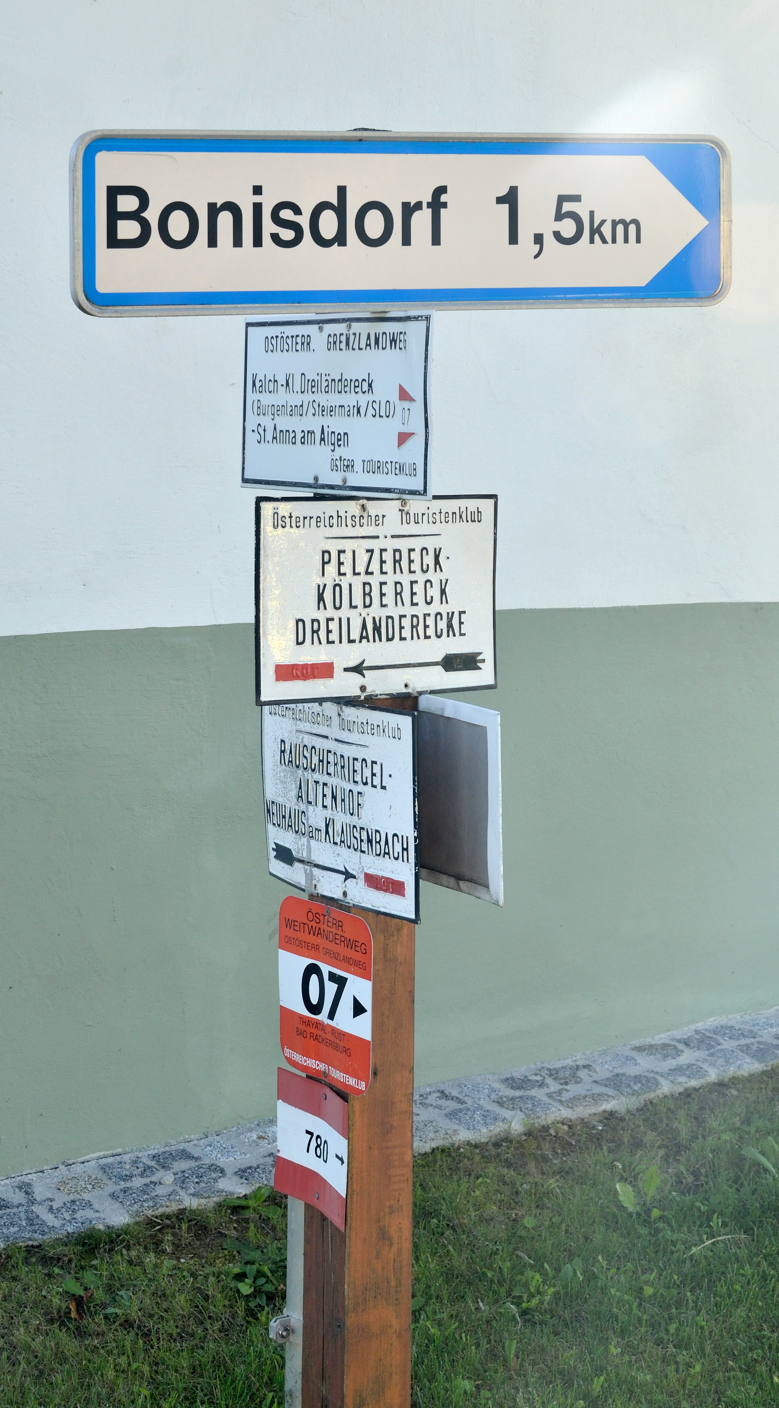 Wegweiser in Bonisdorf, Gemeinde Neuhaus am Klausenbach.